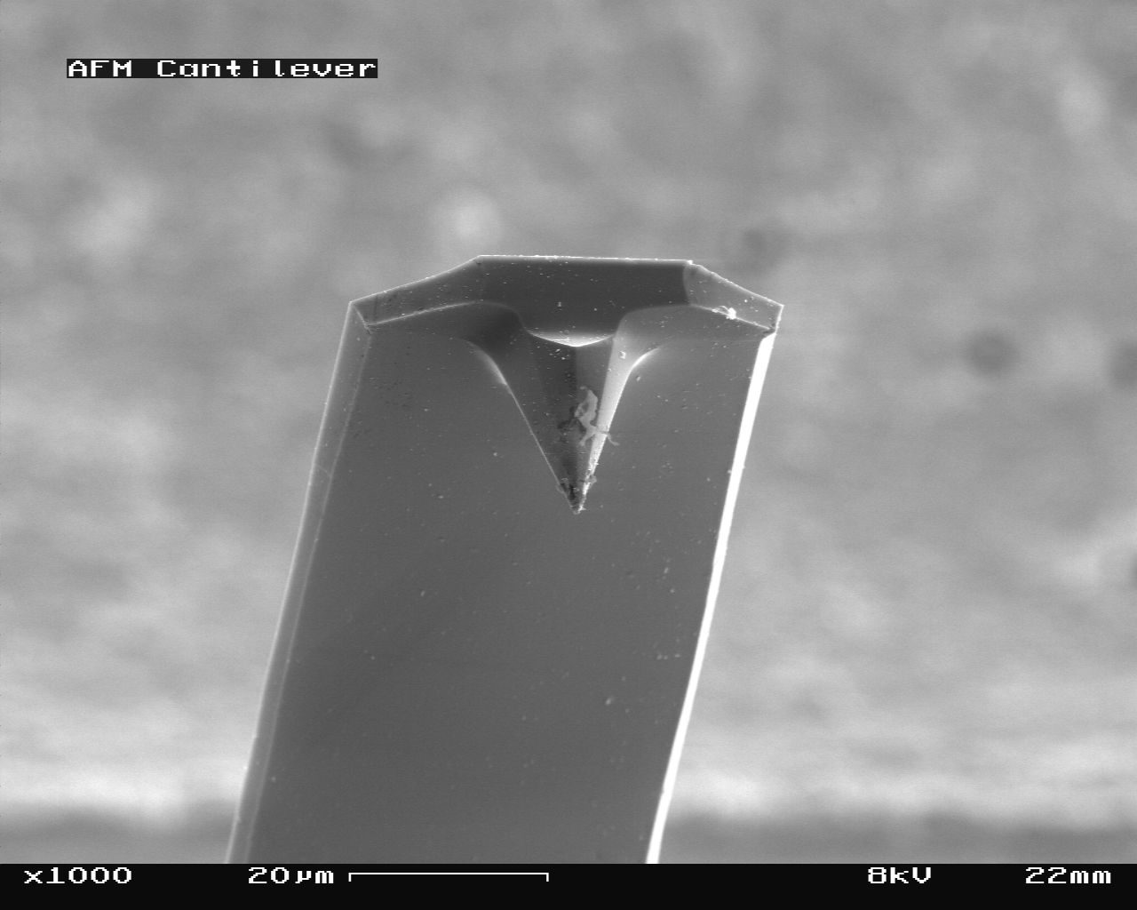 View of cantilever in Atomic Force Microscope (magnification 1000x)